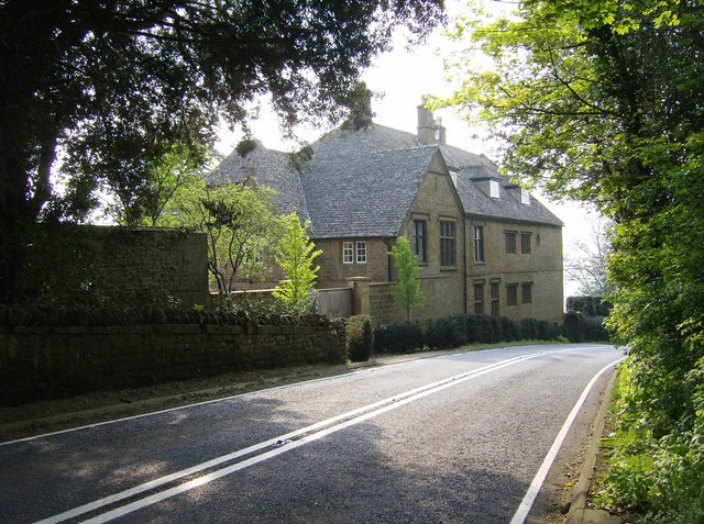 House at top of Sunrising Hill This property is on A422 just below the crest of Sunrising Hill looking west. It probably has magnificent views - and sunsets. Sunrising Hill seems to be the wrong name.